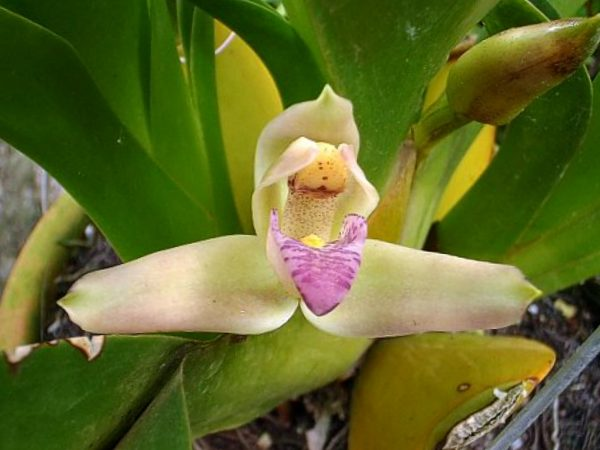 Heterotaxis violaceopunctata